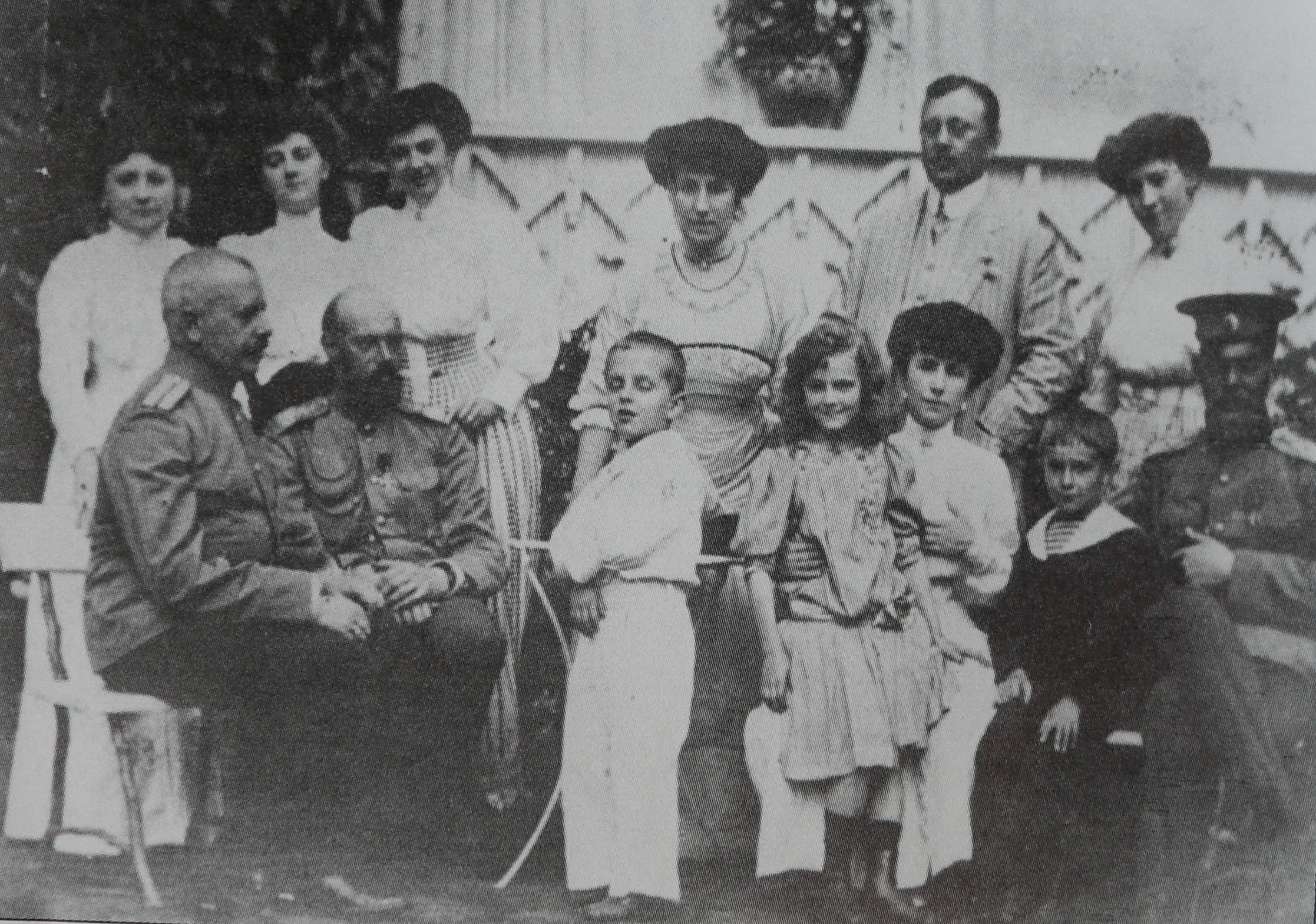 Grand Duke Sergei Michaelovich, Mathilde Kshessinska Grand Duke Andrei Vladimirovich among others c 1909